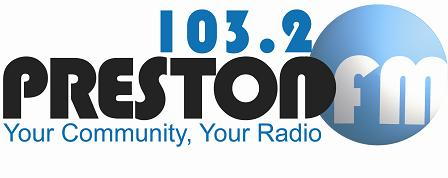 Official preston fm logo